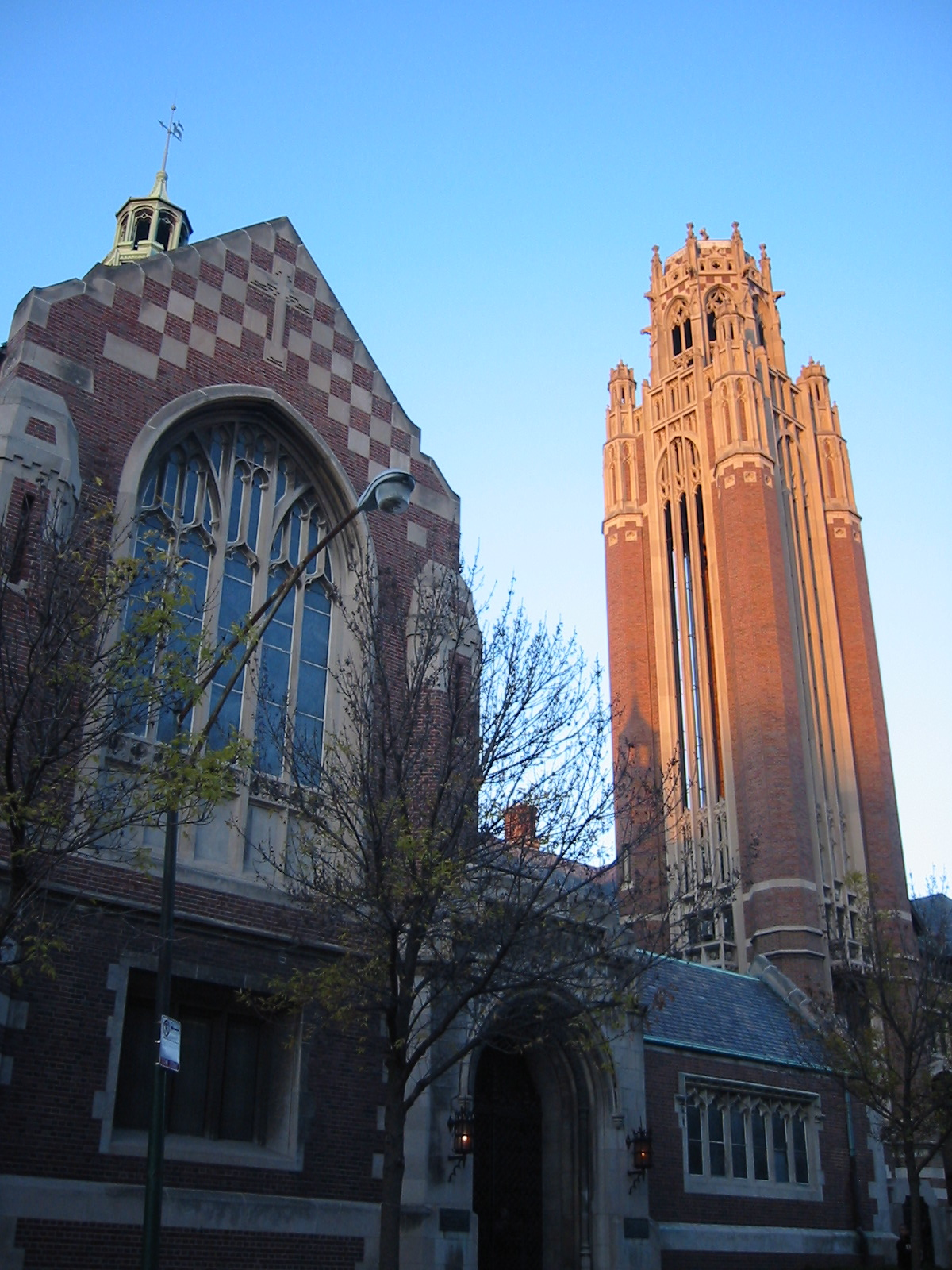 University of Chicago, Illinois, USA